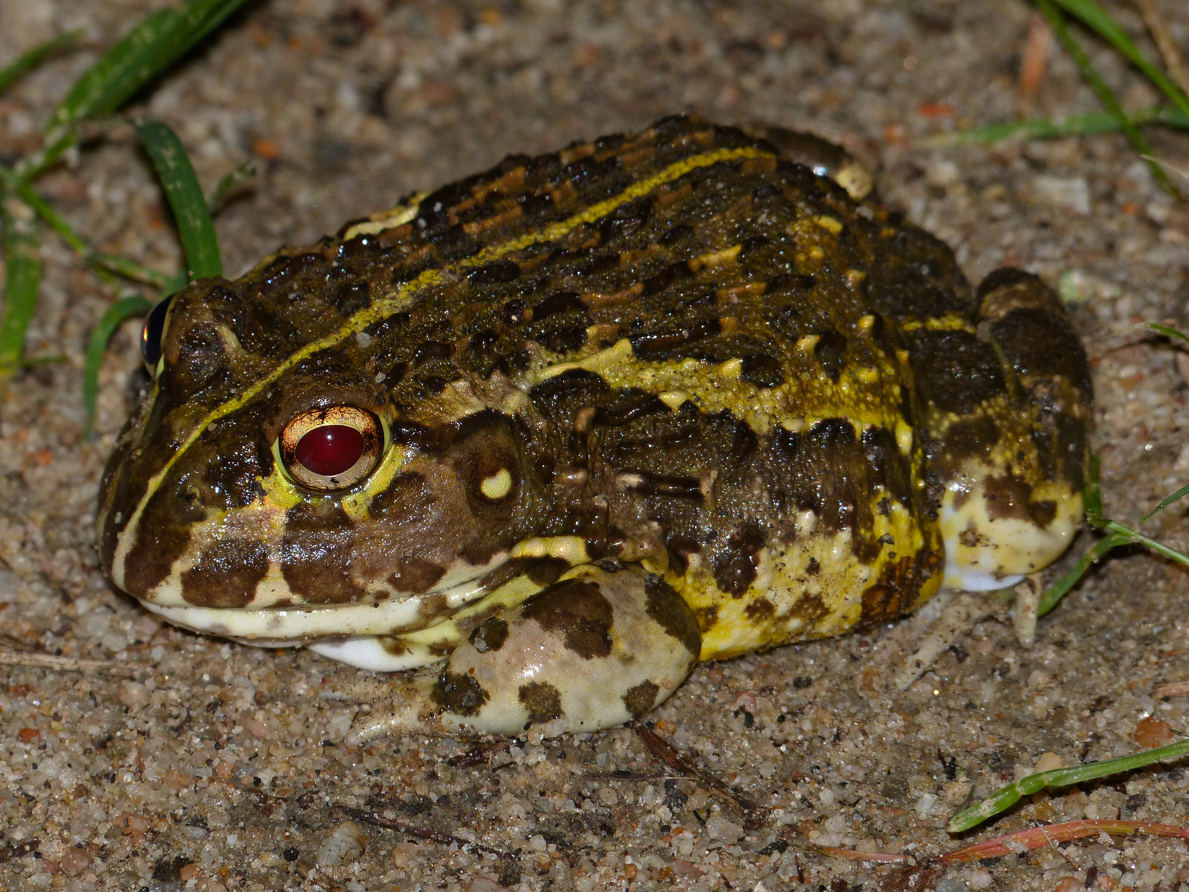 Tamboti Tented Camp, Kruger NP, SOUTH AFRICA